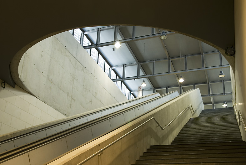 Cais do Sodré Station - Arq. Pedro Botelho and Nuno Teotónio Pereira